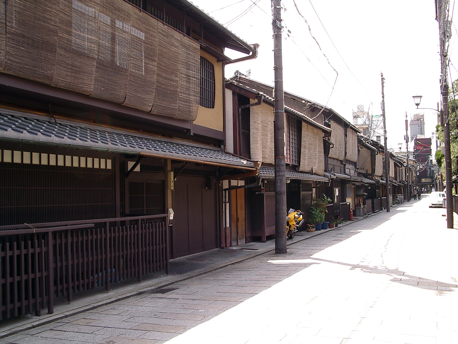 A street in Gion, Kyoto, Japan. 京都・祇園の通り